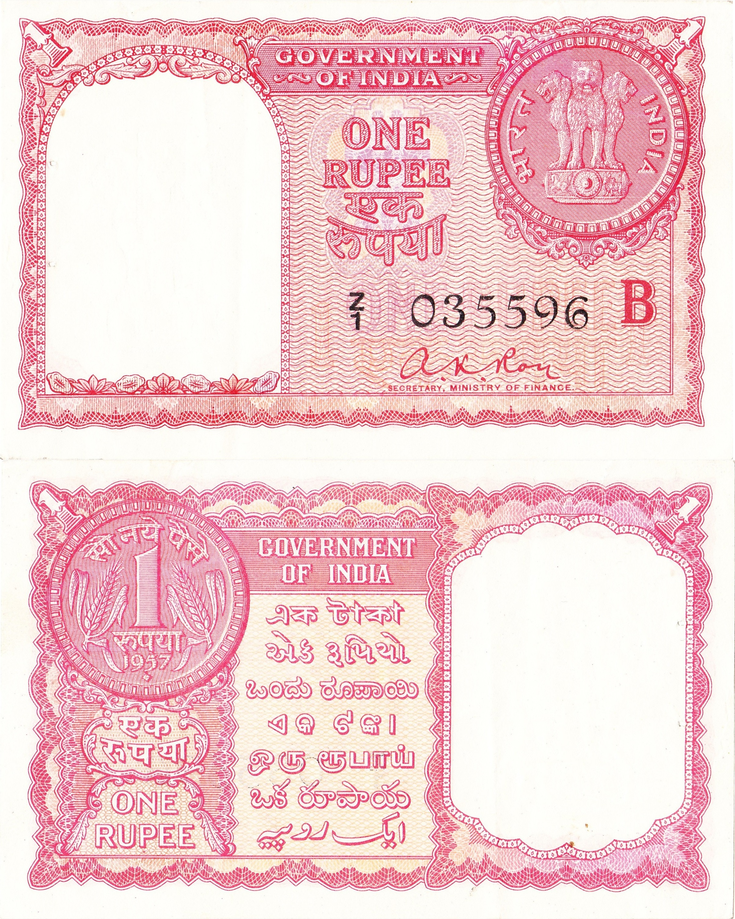 A red "Gulf rupee" banknote, printed by India for use in the countries around the Persian Gulf.